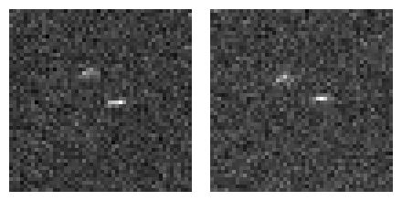 Arecibo radar image of 69230 Hermes from 19 October 2003, showing the relative motion of the components. Motion is counter-clockwise. In each panel, the component at positive Doppler frequencies (right), moves toward the observer, while the component at negative Doppler frequencies (left), moves away from the observer. Radar illumination is from the top. The range resolution is 75 m.